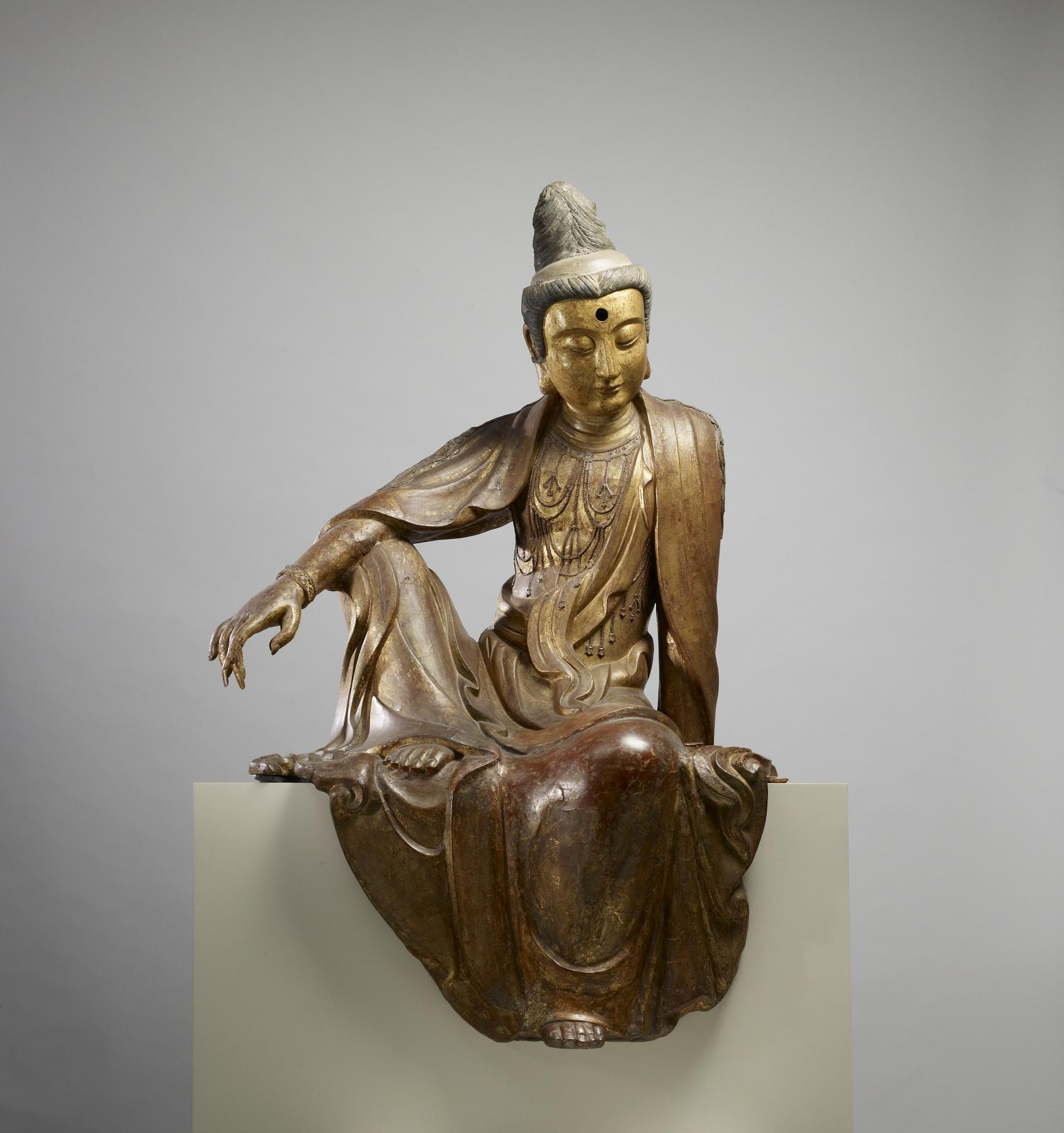 This late Ming dynasty dry-lacquer sculpture is an image of the bodhisattva Guanyin, an enlightened being venerated in Chinese Buddhism as an embodiment of compassion. Called a "Water-moon Guanyin" or "Guanyin sitting in Royal Ease," this theme and its iconography derive from textual inspiration found in the Avatamsaka Sutra (the central text of the Hua-yen school of Buddhism), and indigenous Chinese traditions. The dry lacquer technique was popular, but examples of this size and degree of refinement are rare.